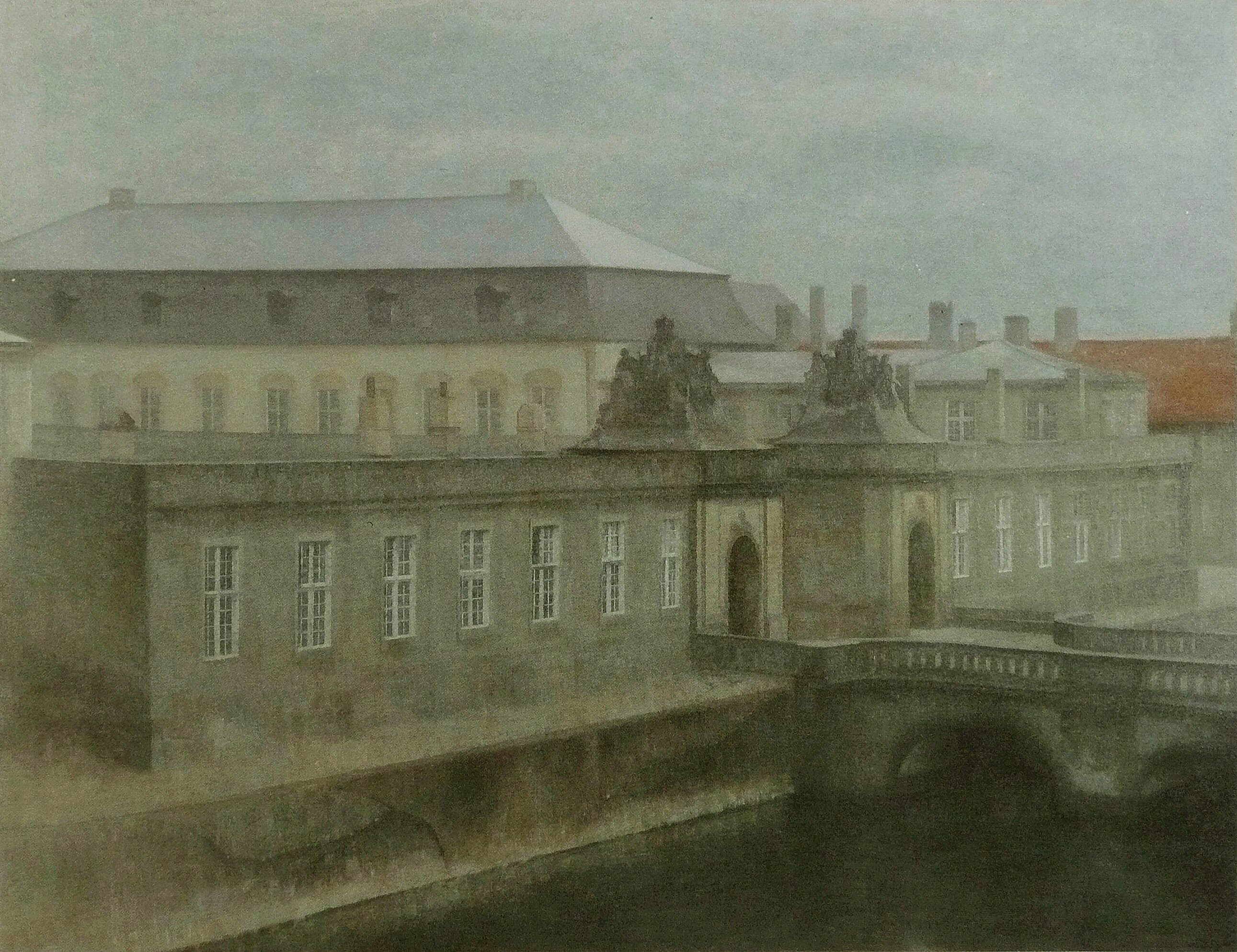 View of Christiansborg Palace. Late Autumnlabel QS:Lda,"Fra det gamle Christiansborg. Sent efterår"label QS:Lde,"Ansicht des Palasts Christiansborg. Spätherbst"label QS:Len,"View of Christiansborg Palace. Late Autumn"label QS:Lfr,"Le Vieux Christiansborg"